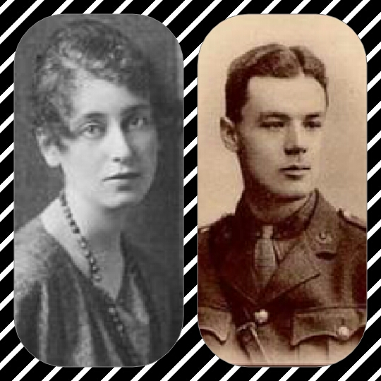 ಆಲೆನ್ ಮತ್ತು ಅವಳ ಗಂಡ